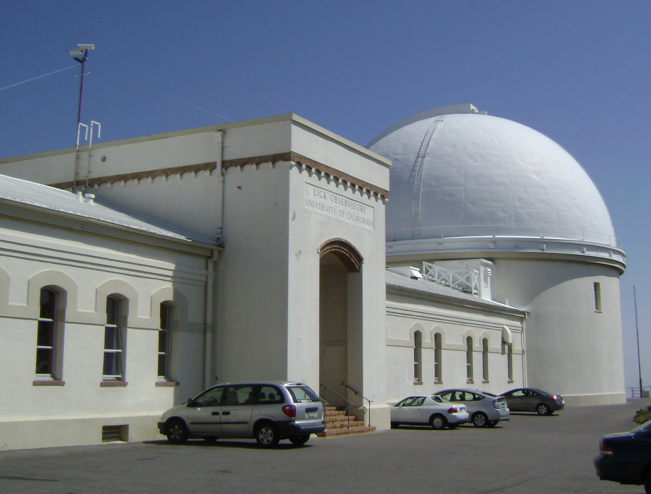 View of the Lick Observatory, the main building and the large dome housing the 36-inch James Lick telescope